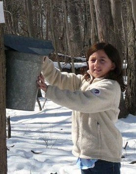 Second grade student at the Avery Coonley School in Downer's Grove, Illinois tapping a maple tree in a school tradition dating back 1929, its first year in this location.